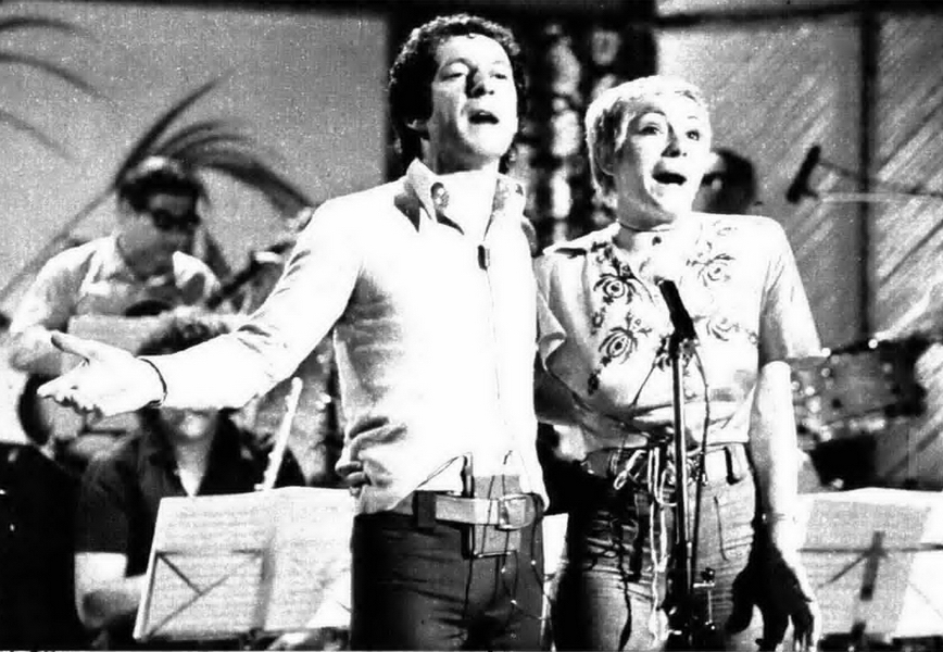 Memo Remigi and Aldina Martano presenting the Italian TV show Qualcosa da dire